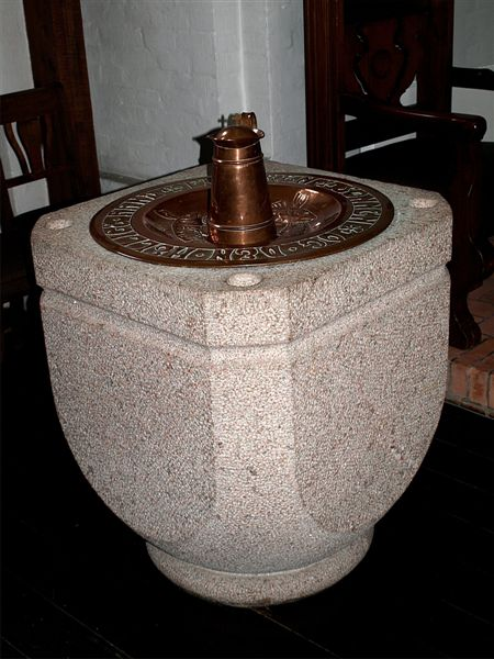 Gedser Kirke (church)